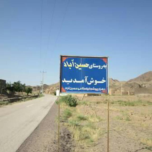 Hossein Abad